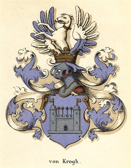 Coat of arms of the von Krogh family